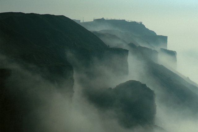 Blacknor Fort in fog. Looking south down the Westcliffs on a foggy Valentine's Day a few years ago. You can just see a walker on the footpath which follows this amazing coastline.